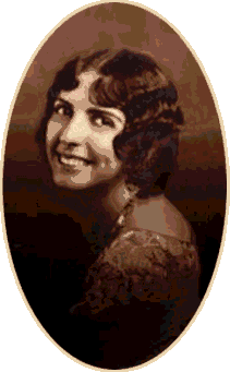 Photograph of Novalyne Price (later Novalyne Price Ellis).